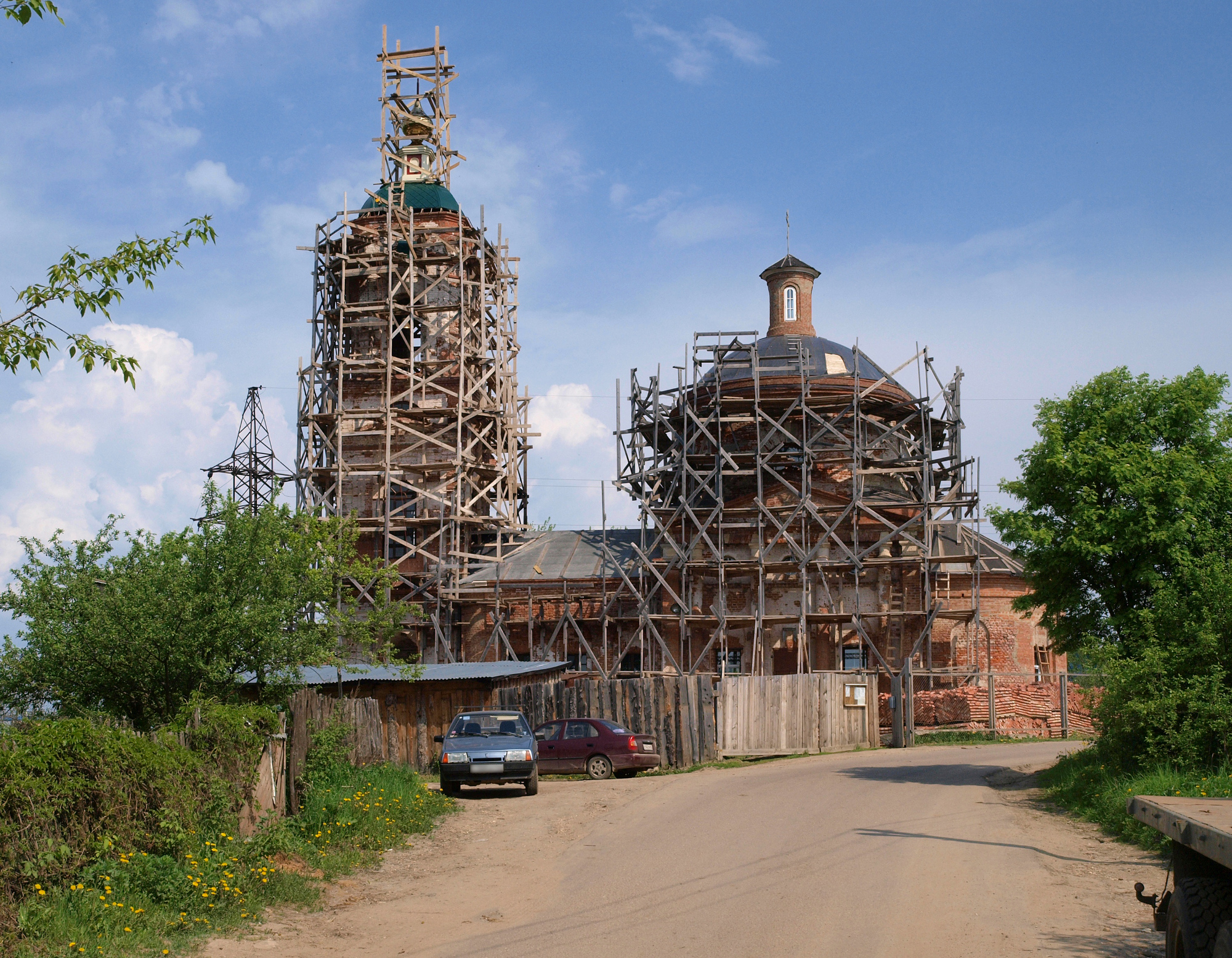 Church of St. Nicholas in Rusinovo.